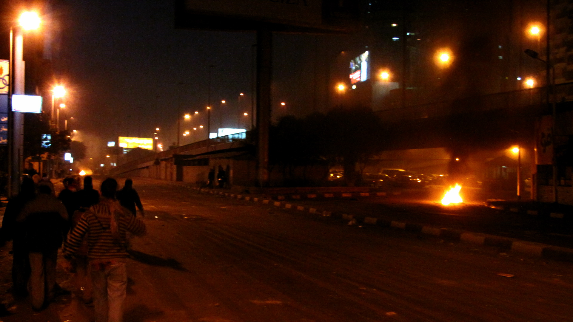 The up-scale Mohandeseen neighborhood in Cairo during the Friday of Anger of the Egyptian Revolution of 2011, January 28, now looking like a war-zone. On the left is the 15th May Bridge, occupied by security forces. Peaceful demonstrations in the morning had turned by nighttime to a violent exchange between the police and the protesters on either side of the bridge, involving stone-throwing, Molotov cocktails, rubber bullets and tear gas grenades. Protesters also set fire to tires and other objects under the bridge to harass the security forces.